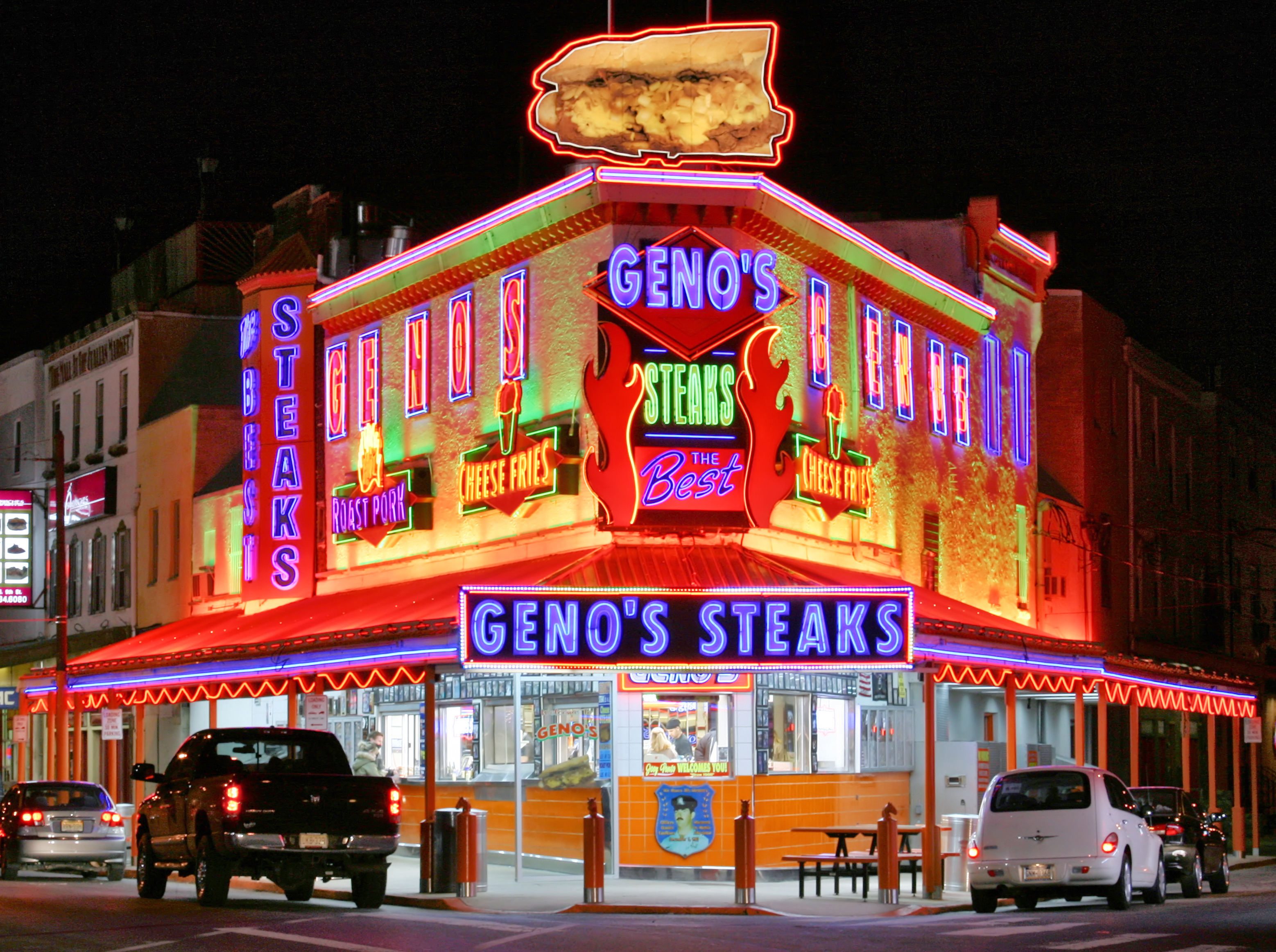 Geno's Steaks in Philadephia